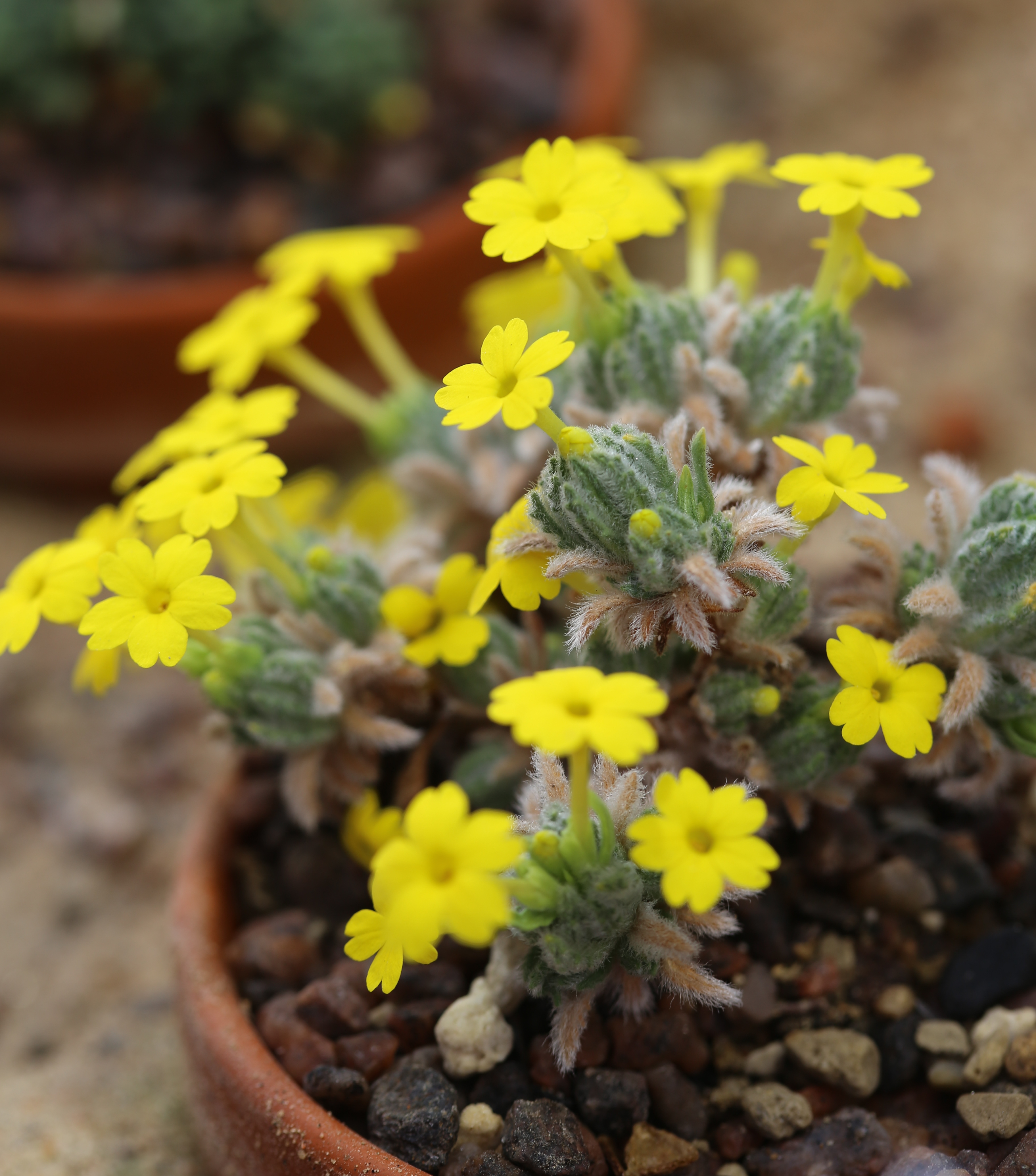 Dionysia leucotricha at Gothenburg Botanical Garden in 2015. Plant id: 2014-1548 p Z -- Tübingen (SLIZE 289)